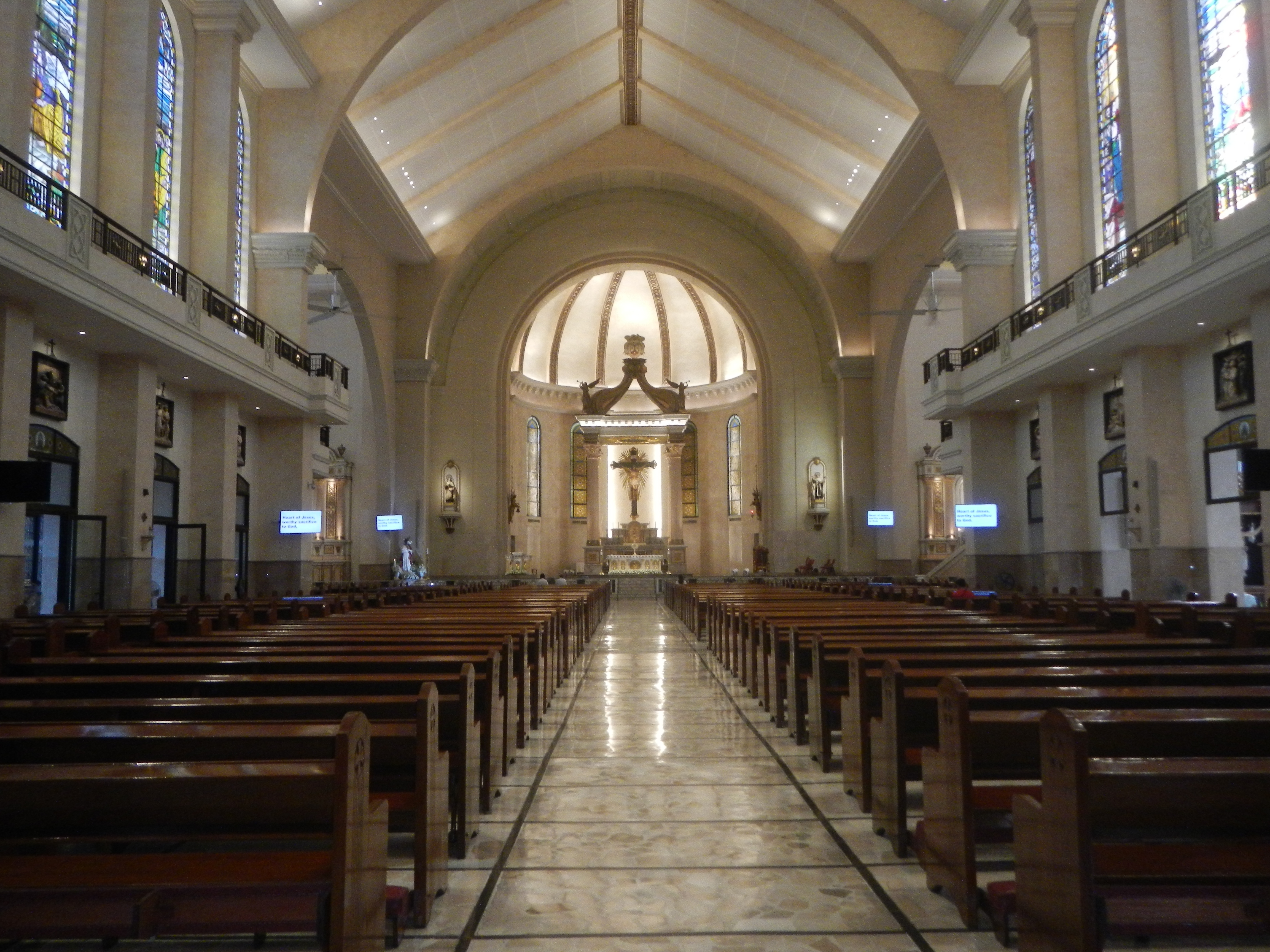 Statues of Saint Teresa of Ávila in the Philippines National Shrine and Parish of Our Lady of Mount Carmel National Shrine and Parish of Mount Carmel Quezon City 14°36'51"N 121°1'49"E Interior (renovation) National Shrine and Parish of Our Lady of Mount Carmel National Shrine and Parish of Our Lady of Mount Carmel (Dona Juana Rodriquez Avenue, formerly Broadway Avenue, New Manila, Quezon City) under the Discalced Carmelite Fathers by Anglo-Irish Carmelites, the cornerstone of the Shrine was laid on December 30, 1954, inaugurated on July 16, 1964 Vicariate of the Holy Family Carmel Shrine in Cubao declared pilgrimage site November 20th, 2012 National Shrine List of barangays of Metro Manila Legislative districts of Quezon City, Barangays of Quezon City, Barangay Valencia from Mariana, District IV, Quezon City (Note: Judge Florentino Floro, the owner, to repeat, Donor Florentino Floro of all these photos hereby donate gratuitously, freely and unconditionally all these photos to and for Wikimedia Commons, exclusively, for public use of the public domain, and again without any condition whatsoever).